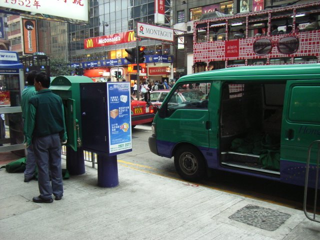 HK Postmen and Post car in Yet Wo Street, Causeway Bay, Hong Kong